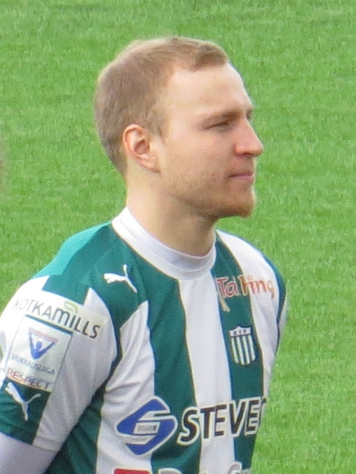 Samuli Kaivonurmi, suomalainen jalkapalloilija FC KTP:n paidassa kaudella 2015.